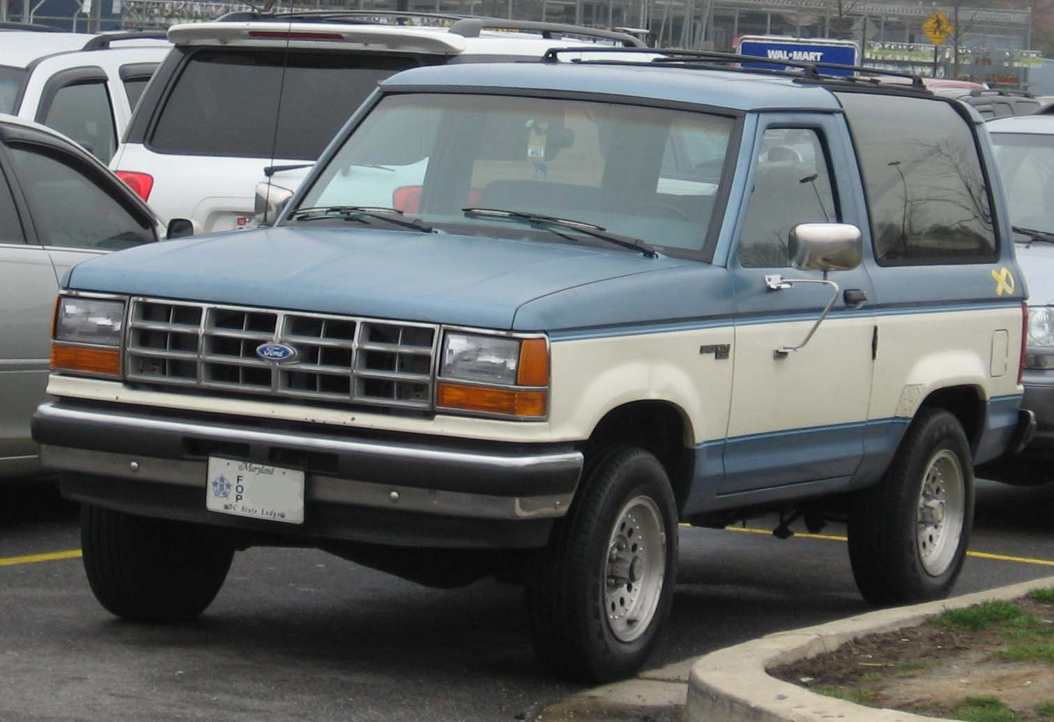 1989-1990 Ford Bronco II photographed in USA.